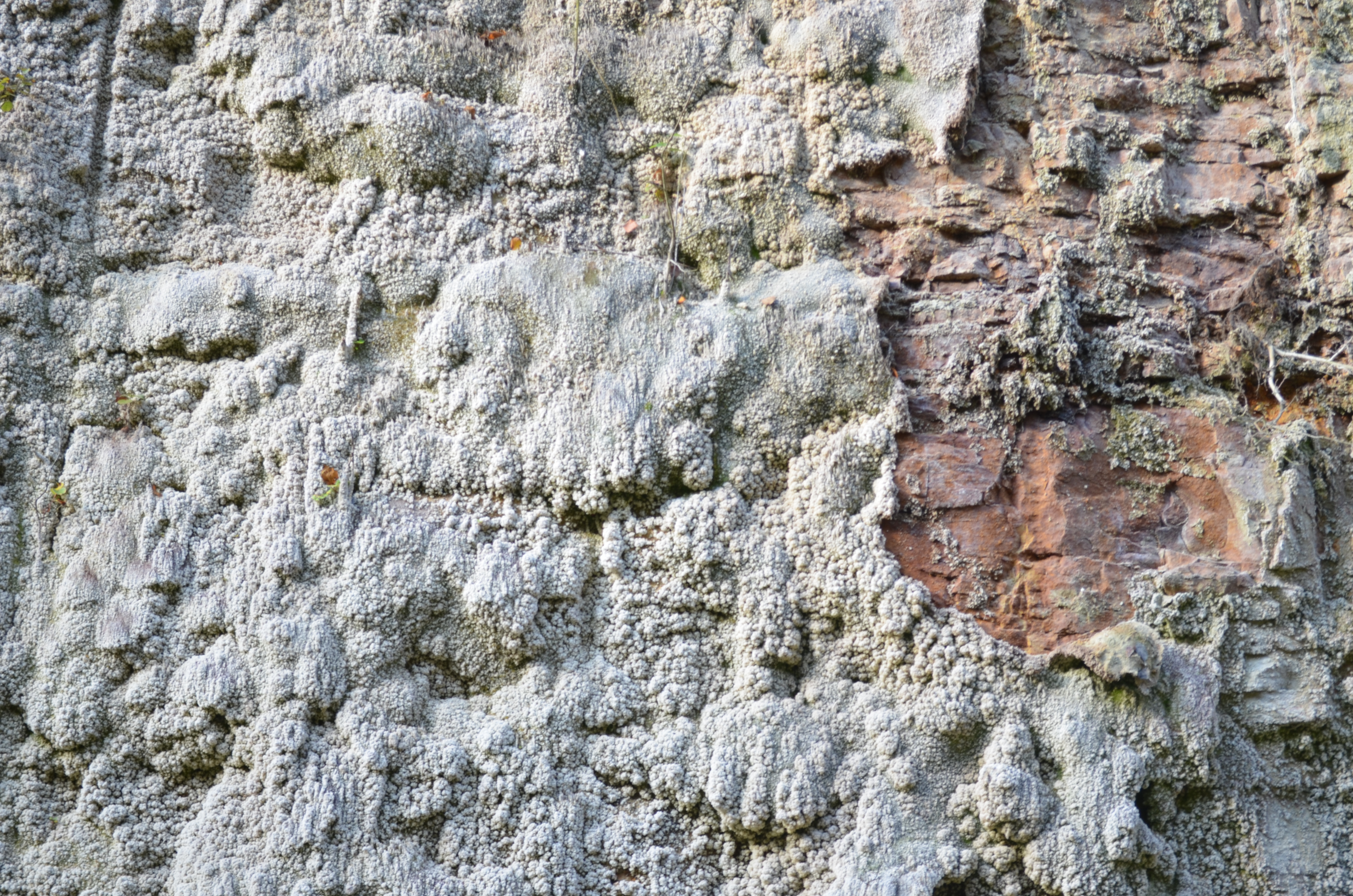 Clayslate in section. Shale in cross.